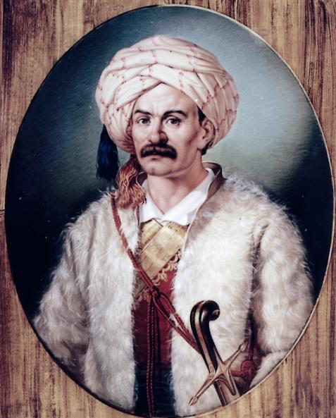 Portrait de Charles Fabvier. Musée de la Guerre, Athènes. Source (Fondation of the Hellenic World)